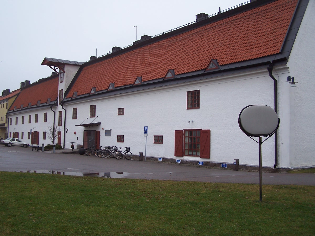 The barrel store (today Swedish Coast Guard HQ), Stumholmen, Karlskrona